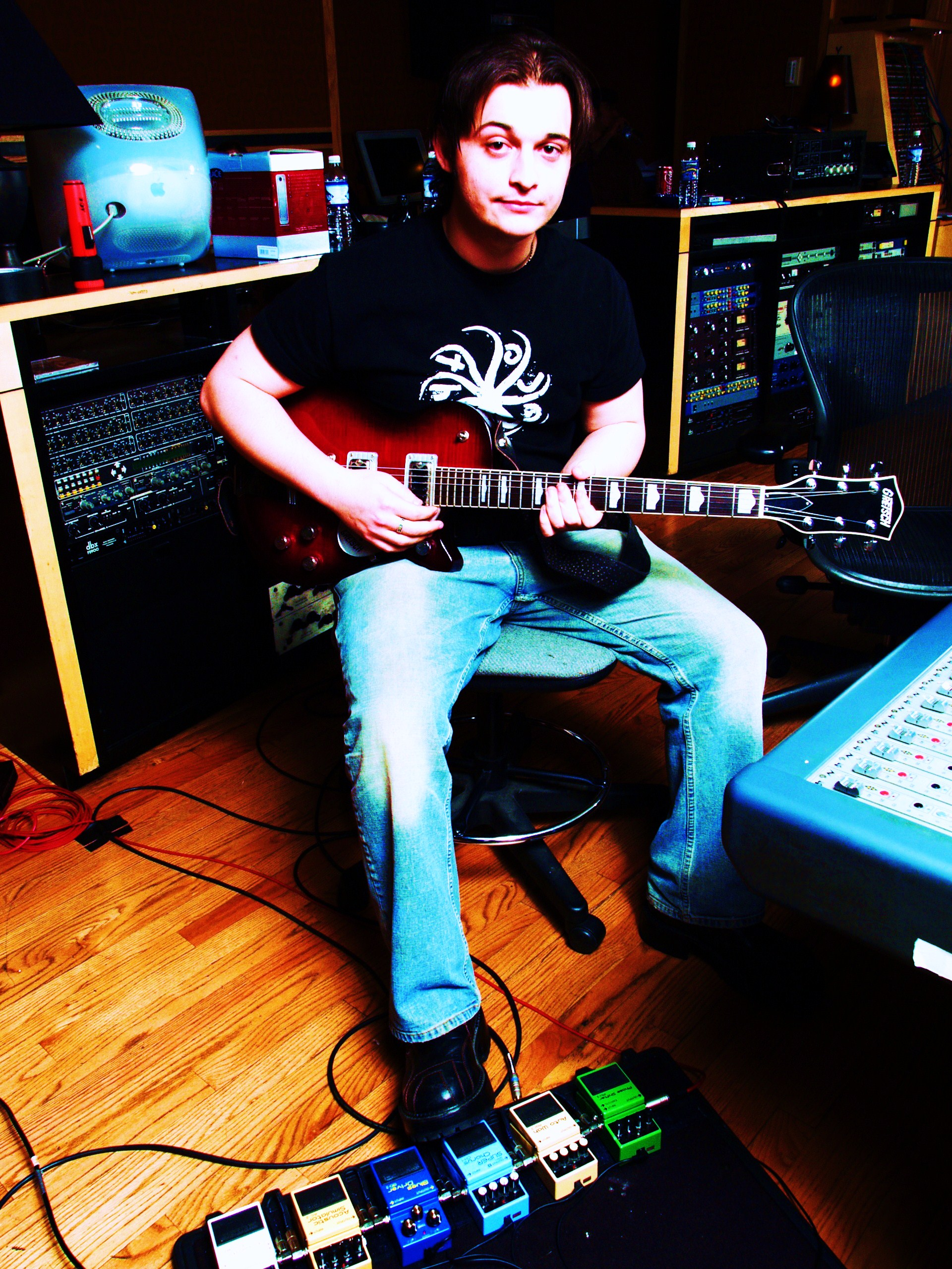 Tony Martino